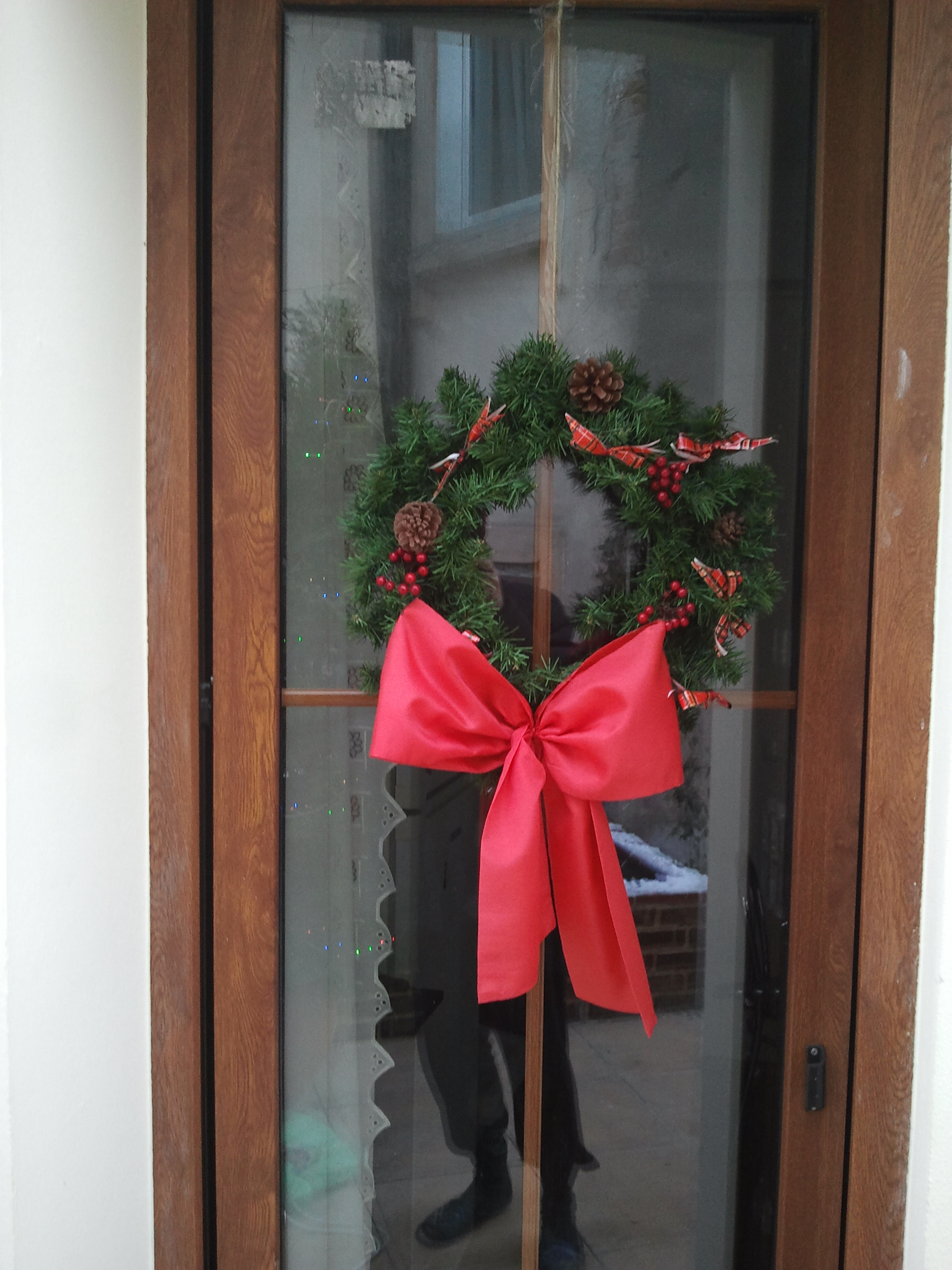 Christmas traditional wreath (in Romania)